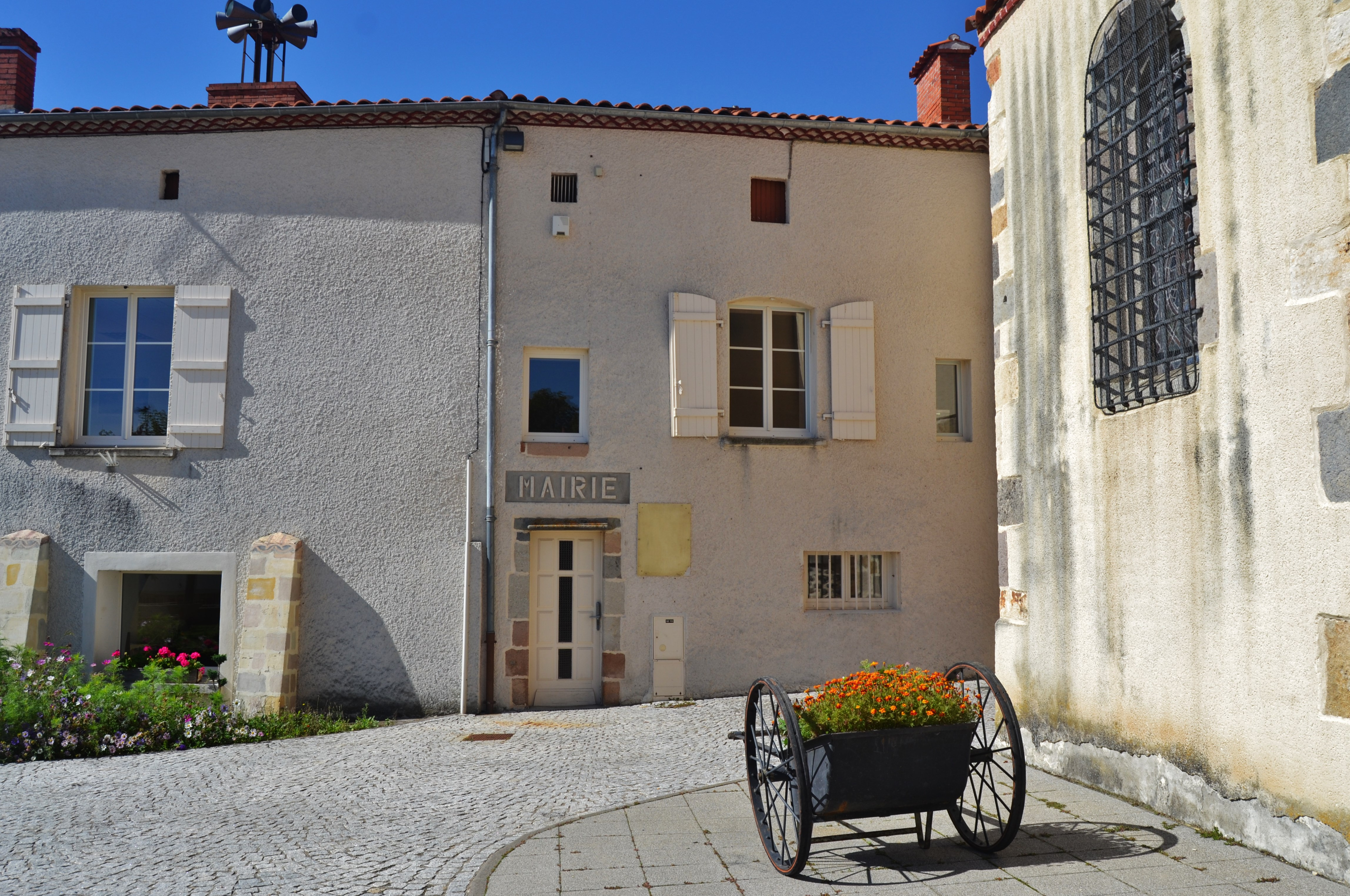 Mairie Chidrac